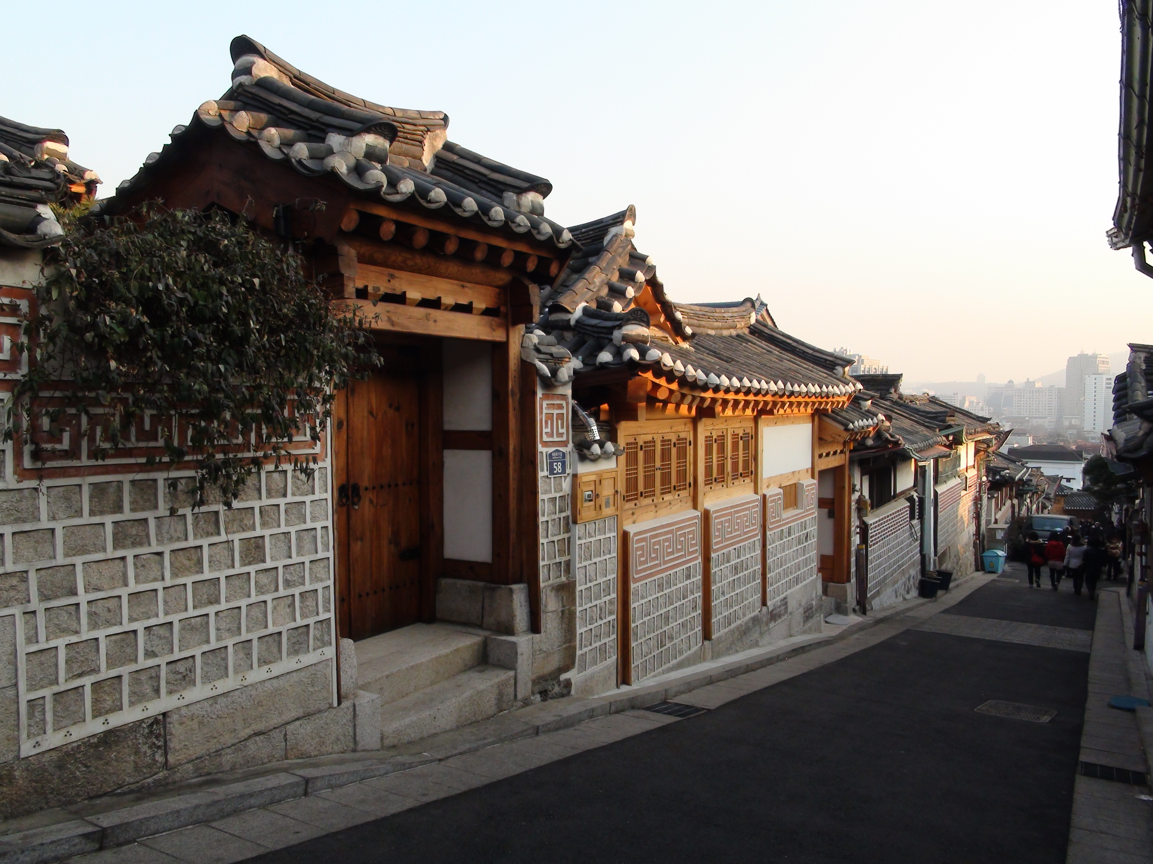 Area west of Bukchon Hanok Village in Seoul